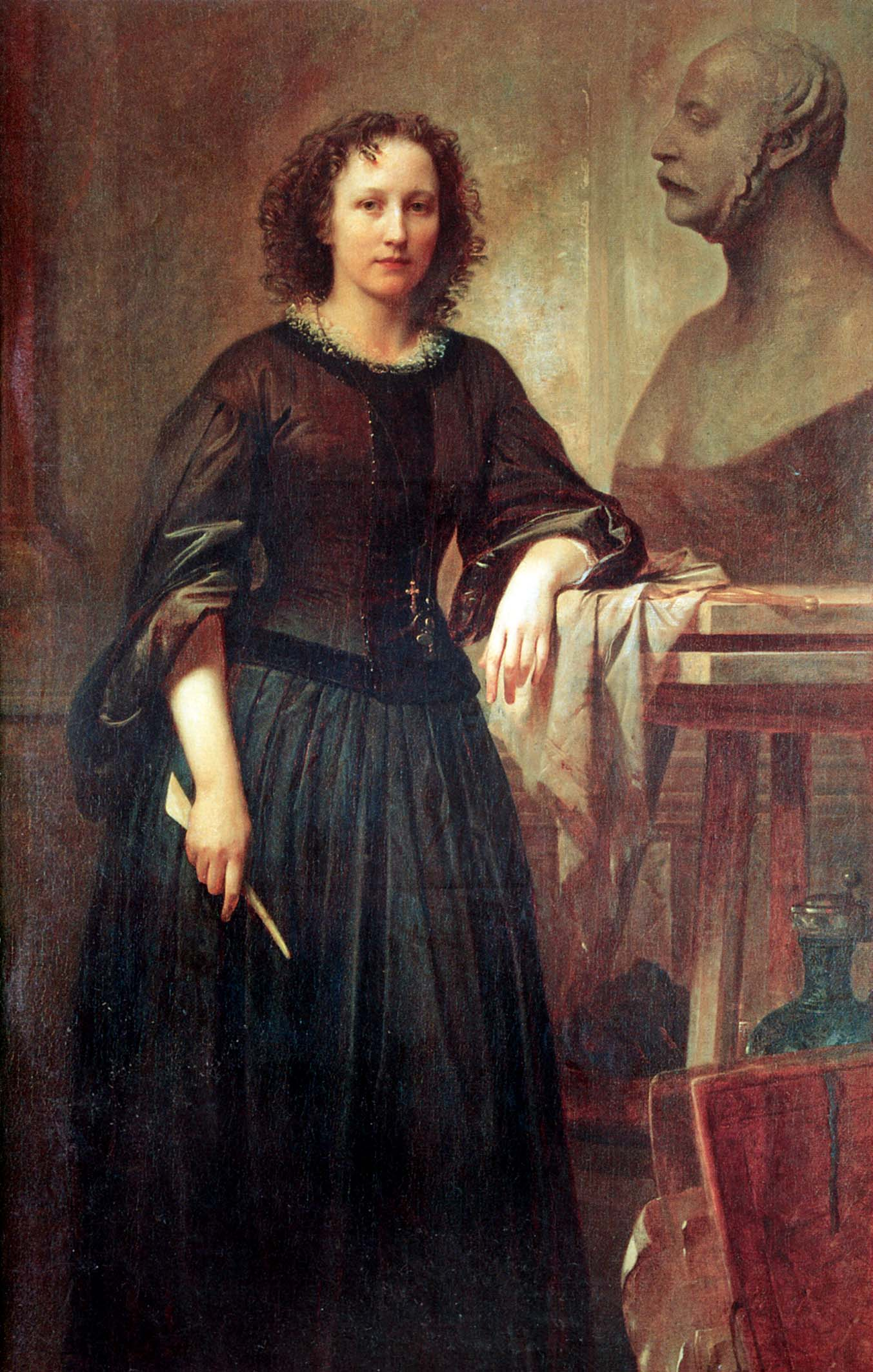 Portrait of German-American sculptor Elisabeth Ney with a bust of King George V of Hanover